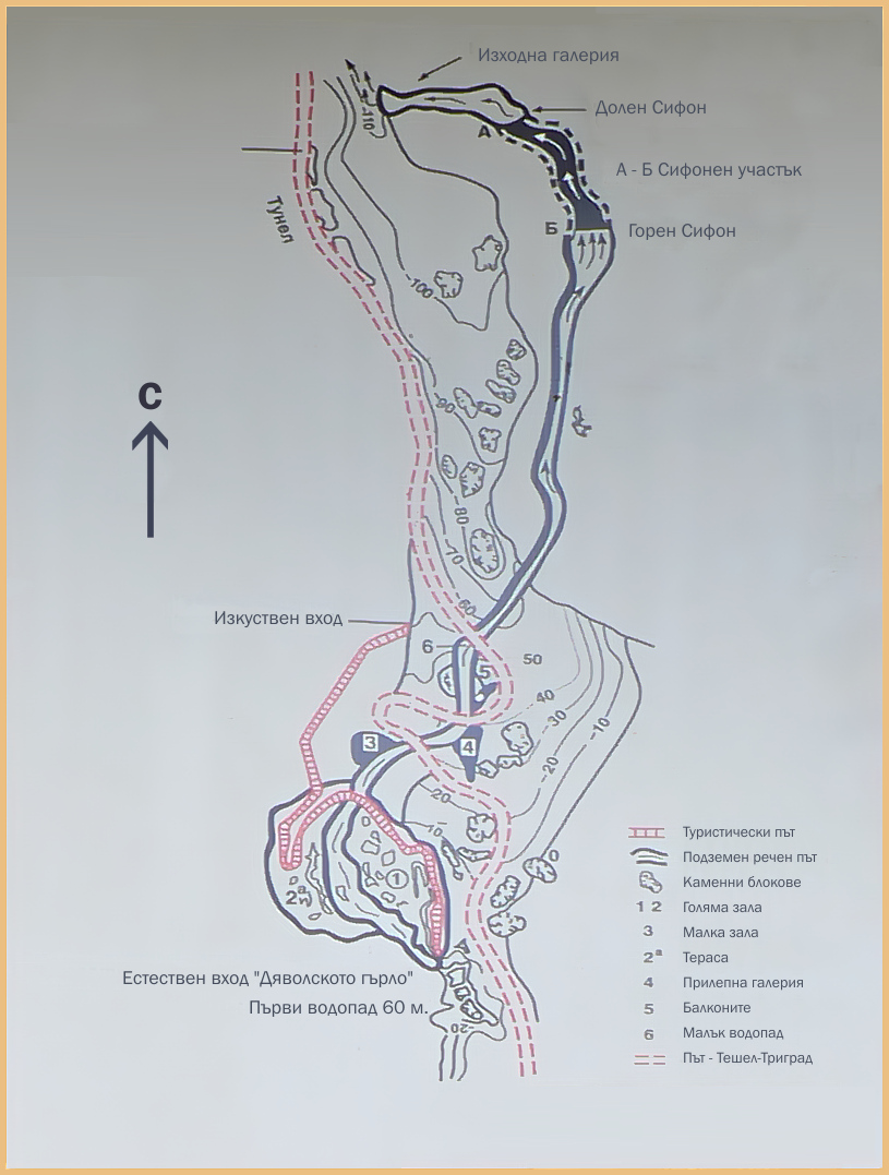 A map of the cave "Dyavolskoto gurlo" (The Devil's Throat) in Bulgaria